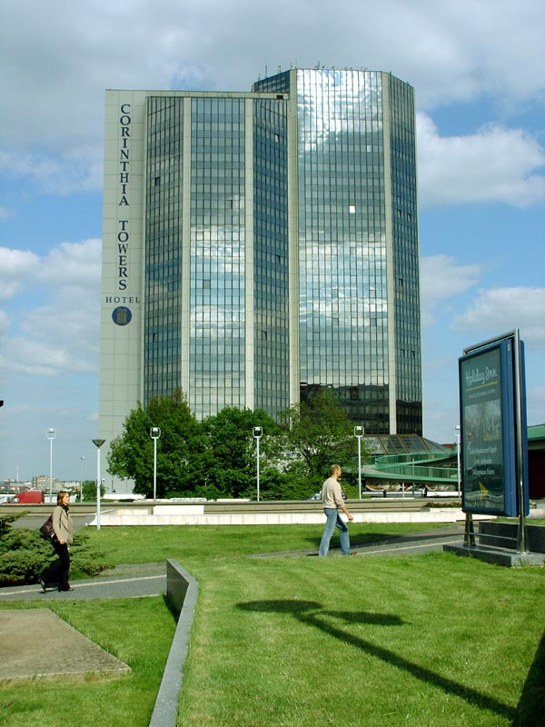 Corintia Tower Hotel, Prague.